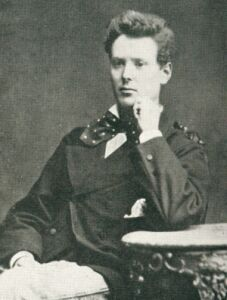 Gestur Pálsson, 1852-1891